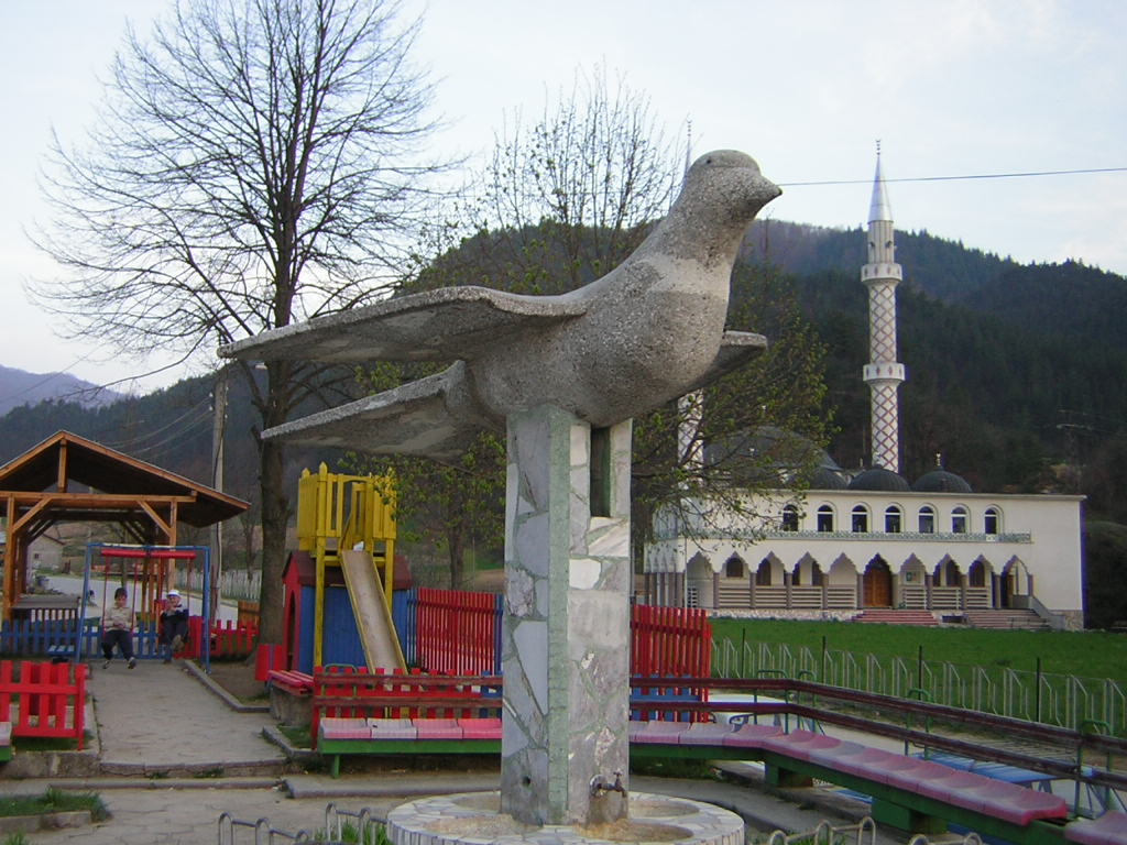 Stone monument of a dove. Chepintsi village, Bulgaria